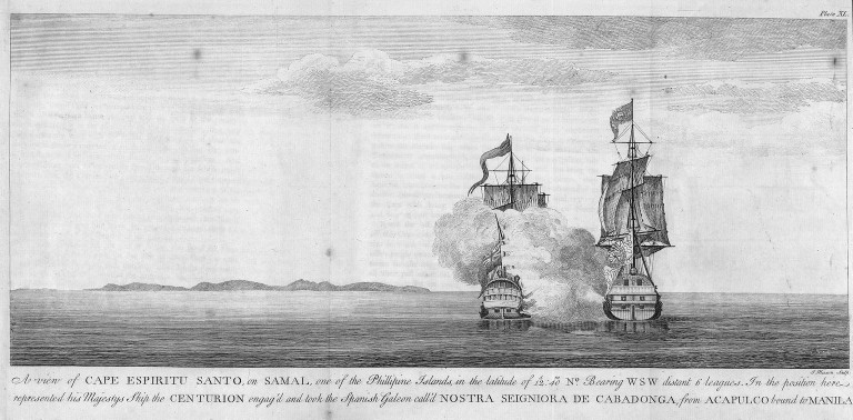 [Illustrations de A Voyage round the world in the years MDCCXL, I, II, II, IV. By George Anson. Compiled... by Richard Walter] / J. Mason, grav. ; Richard Walter, aut. du texte Éditeur : J. and P. Knapton (london) 1748